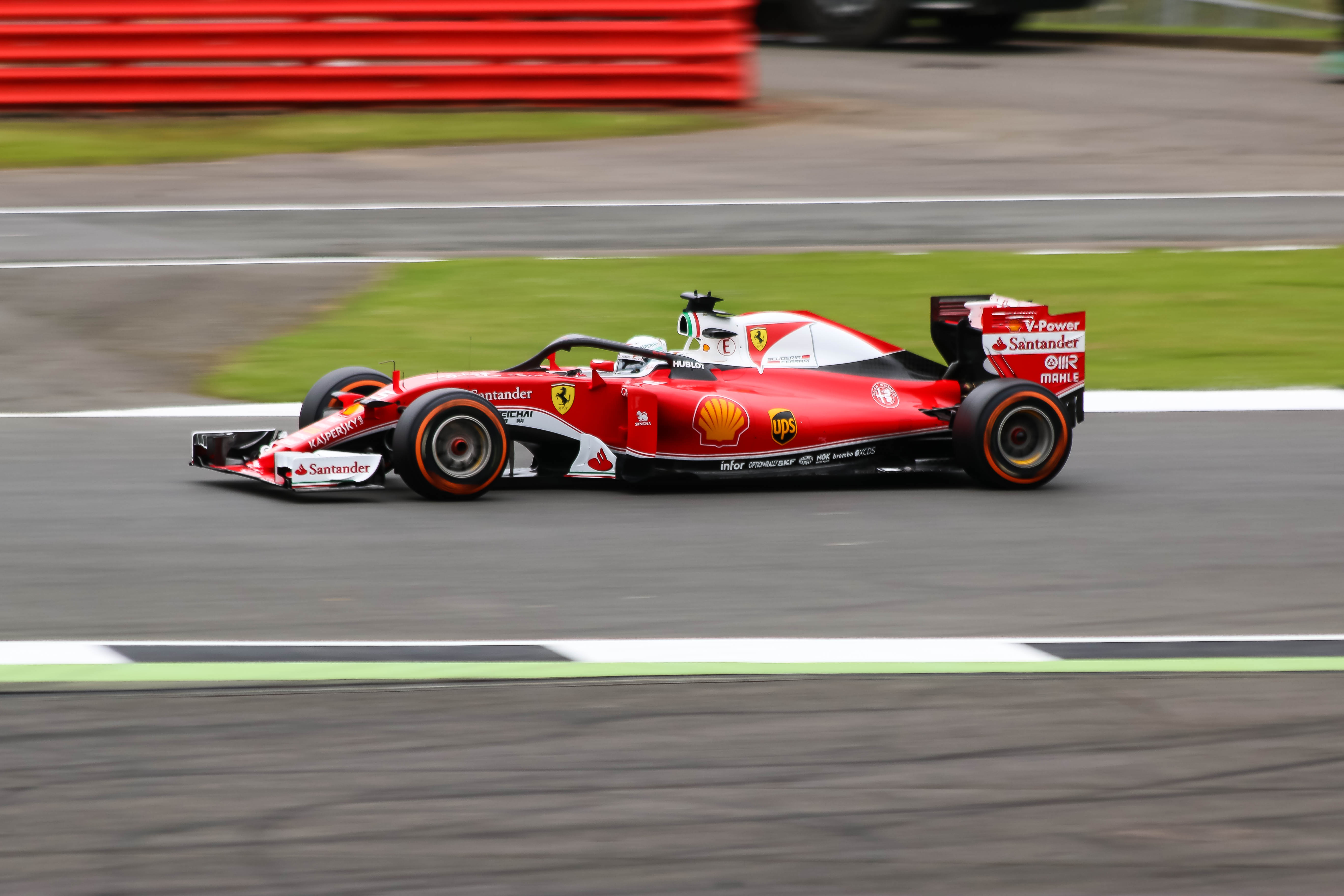 Vettel tries the Halo system at the 2016 British GP